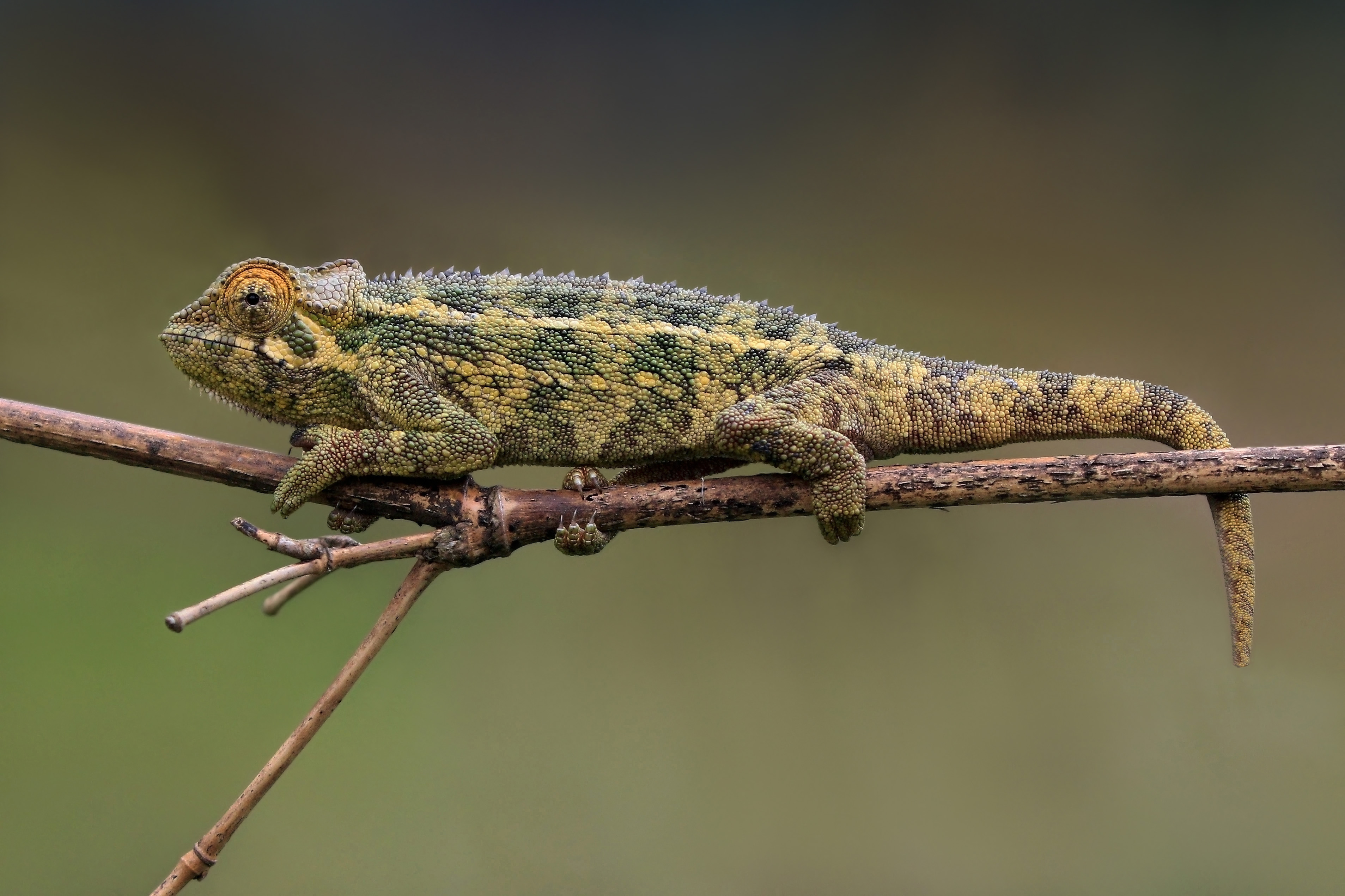 Rough chameleon (Trioceros rudis), Near Mount Karisimbi, Rwanda. Chameleon was moved from a bush, so is recolouring.